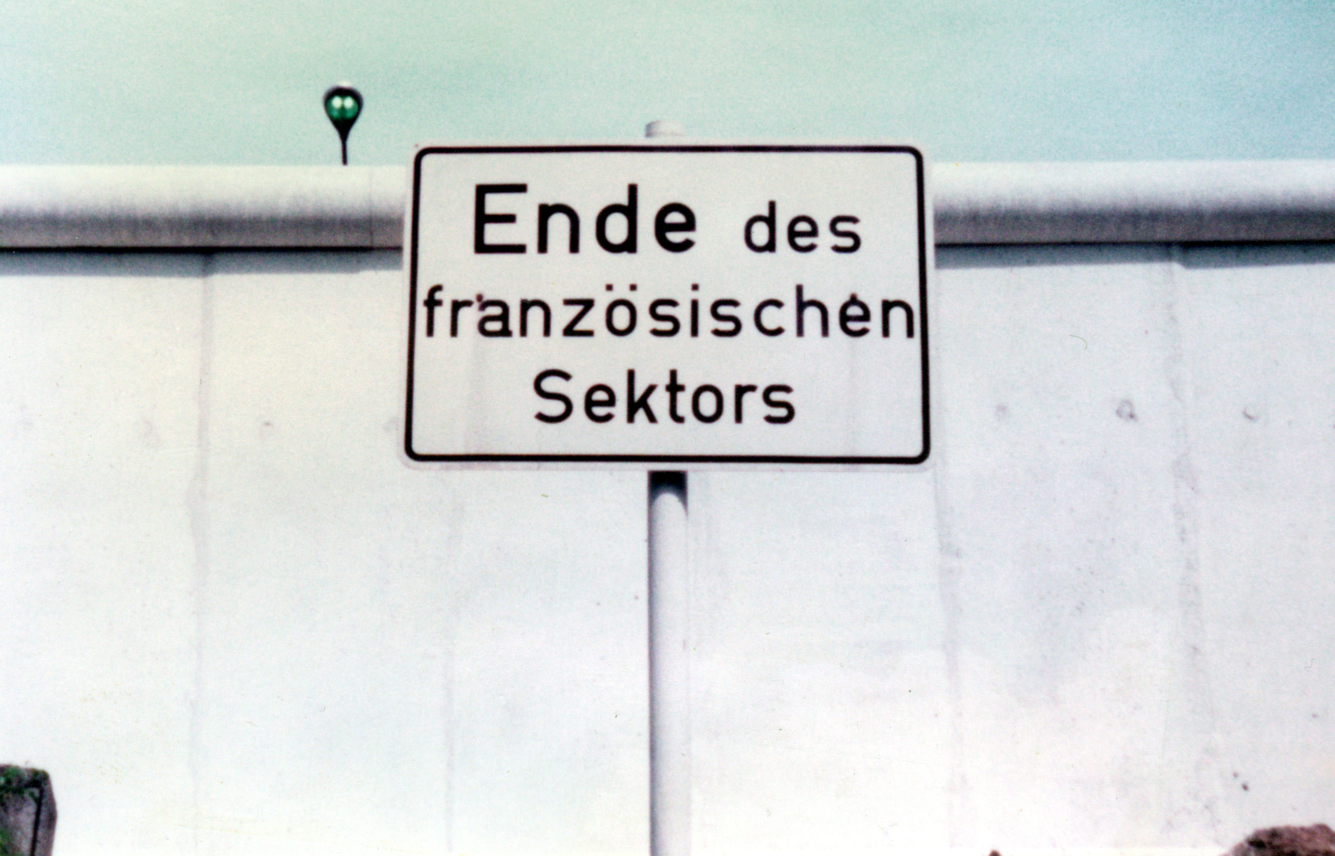 Berlin Wall (1982)